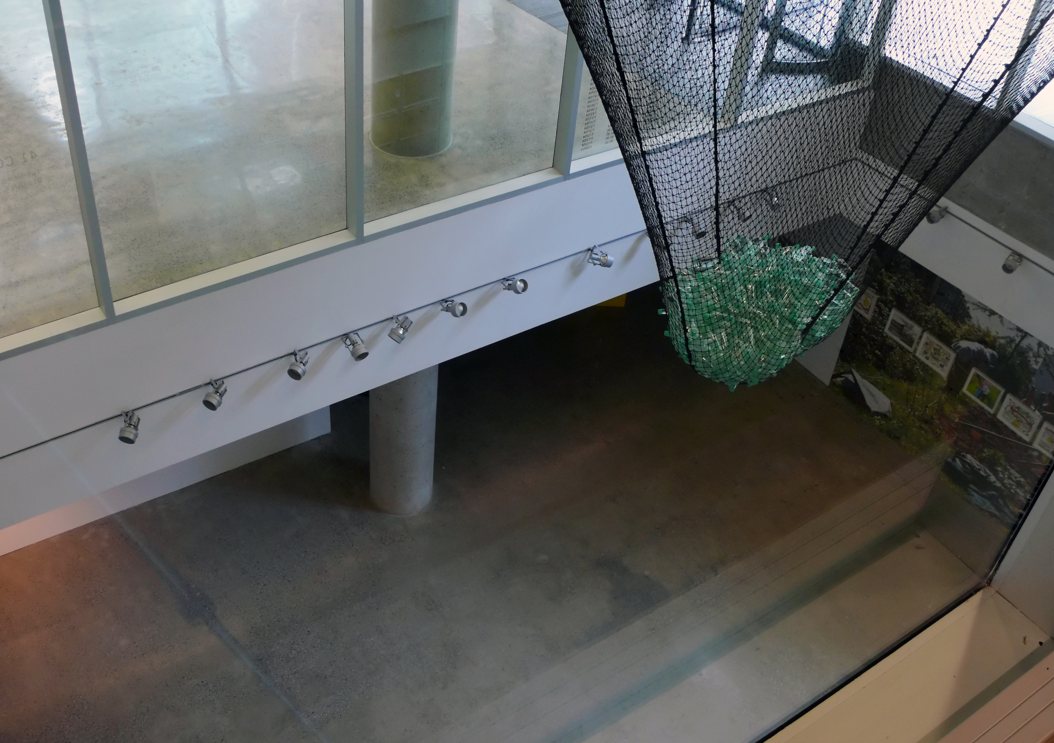 Photo of the 41 Cooper Art Gallery from its top level.